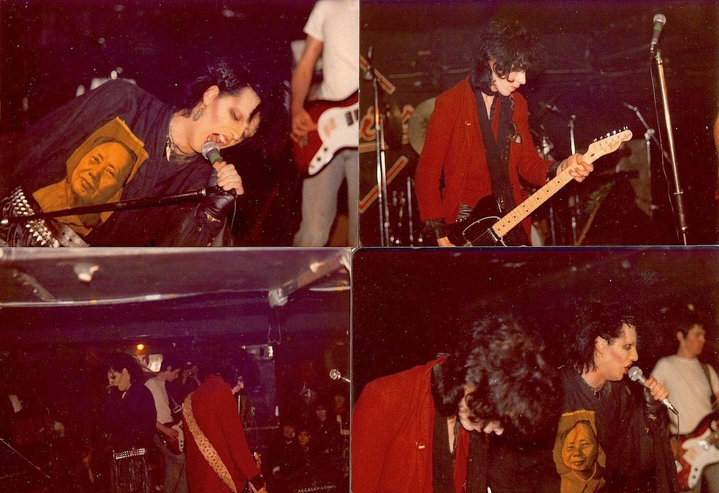 Nightmares in Wax, an early band's photo.